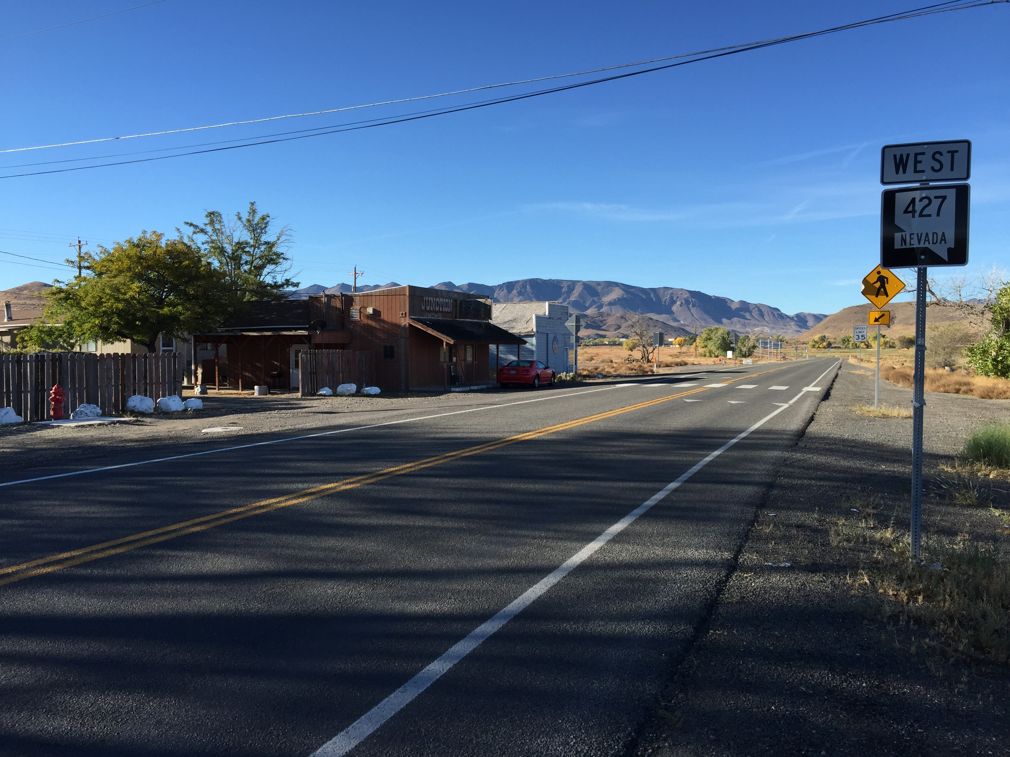 View west along Main Street (Nevada State Route 427) at the intersection with Washeim Street (Nevada State Route 447) in Wadsworth, Nevada